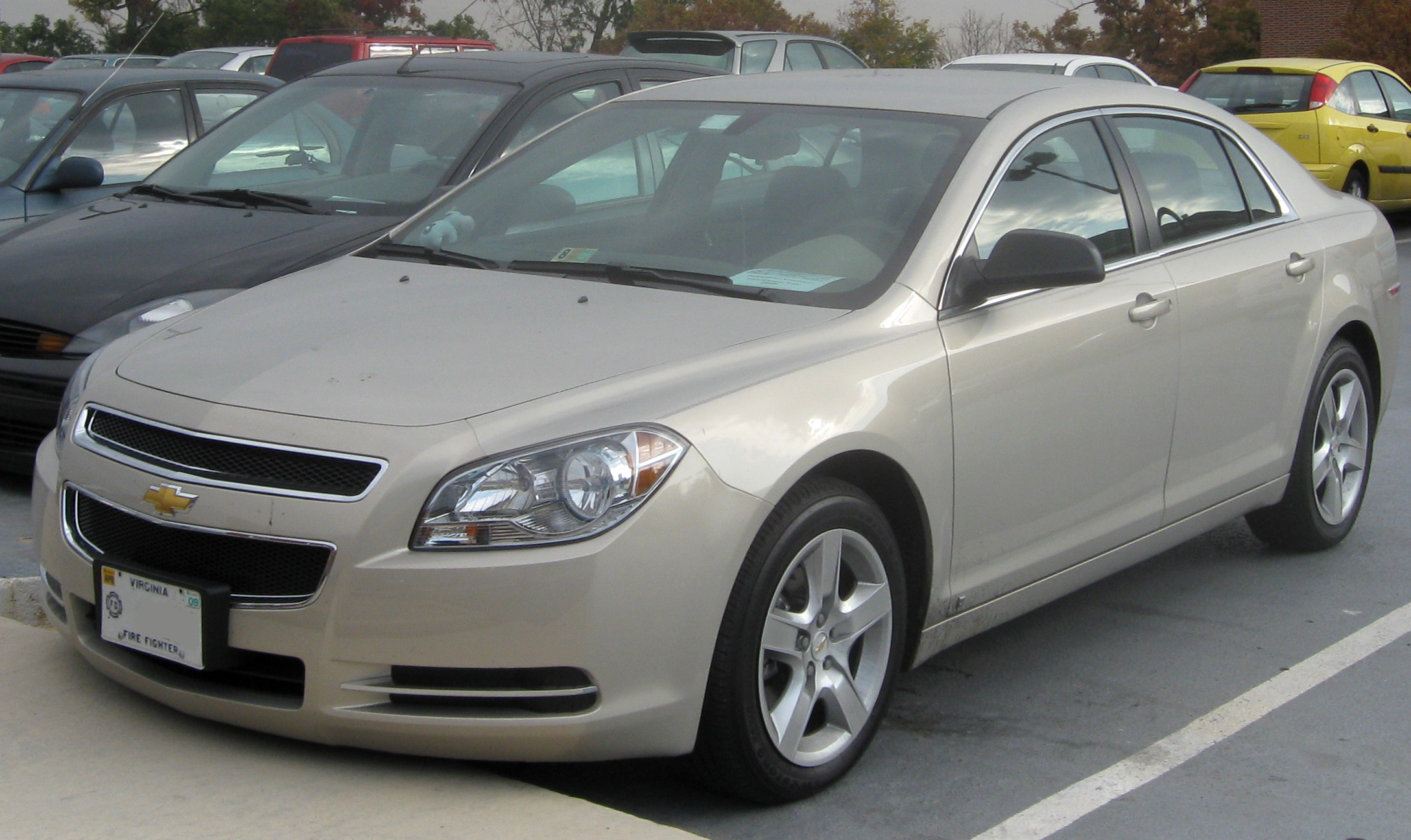 2009 Chevrolet Malibu photographed in College Park, Maryland, USA.